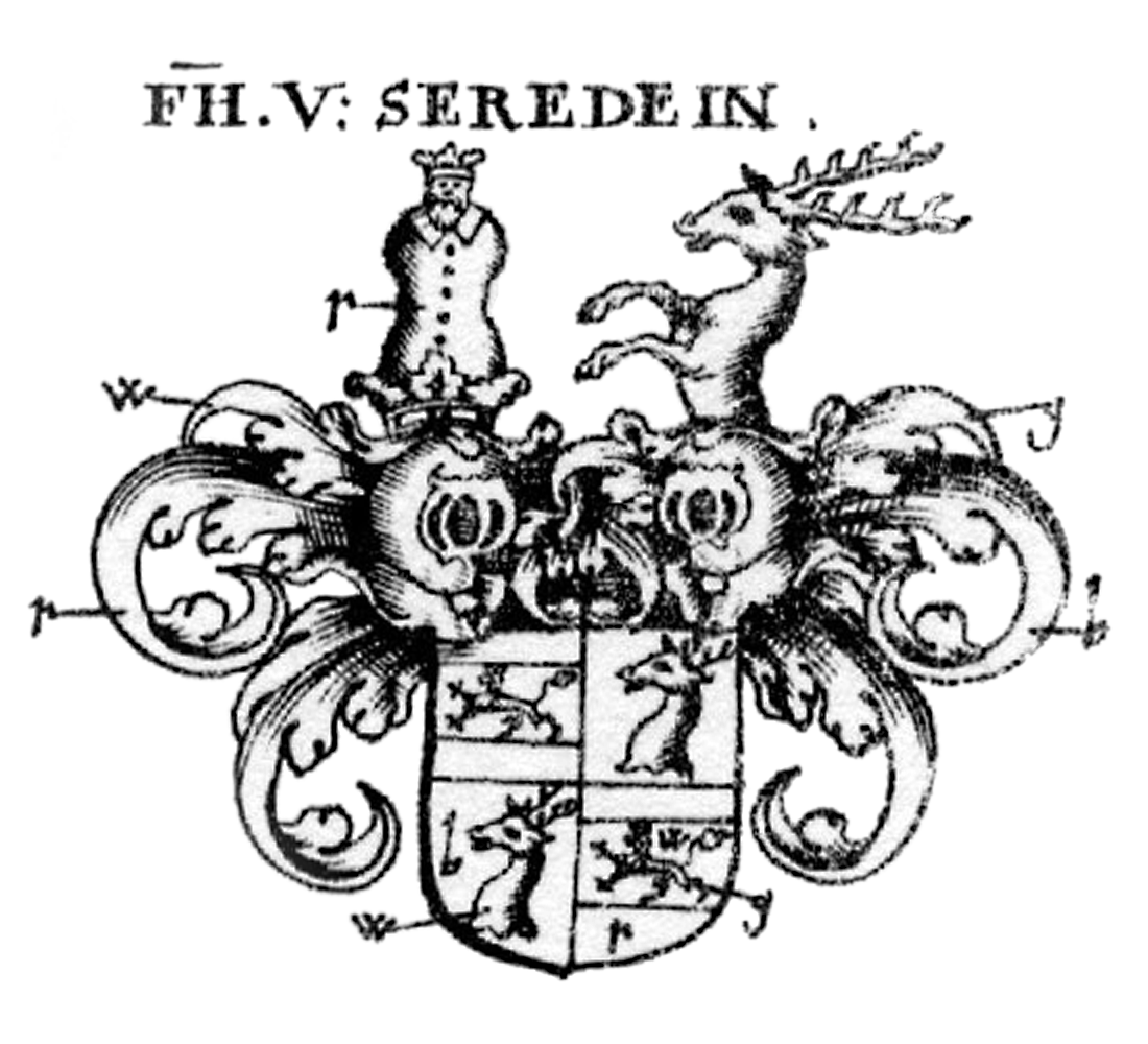 Coats of Arms of Serendein (Sarenthein), Barons